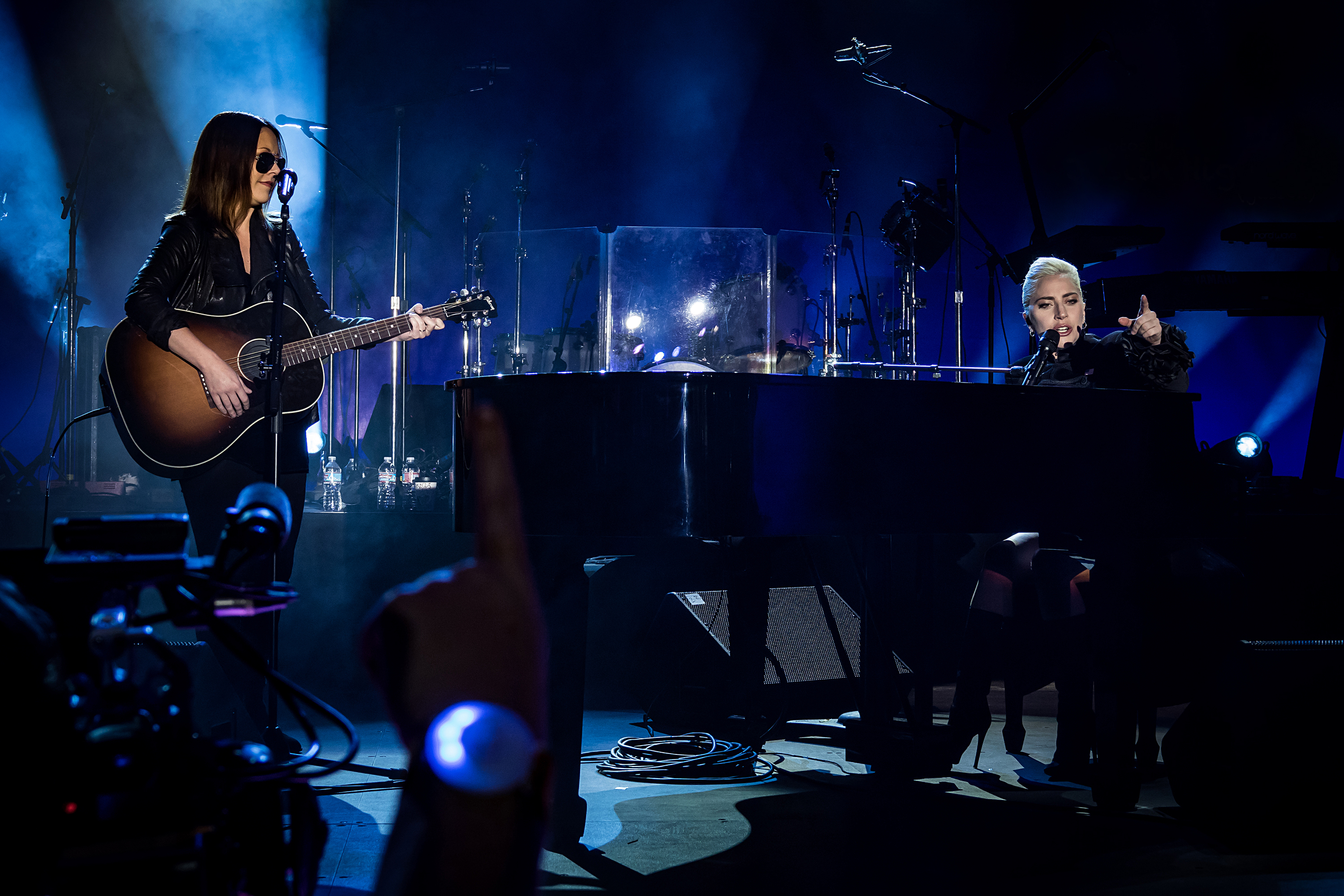 Lady Gaga performing "Million Reasons" at the Airbnb Open Spotlight concert in downtown Los Angeles, California, on Saturday, November 19, 2016. She is accompanied by singer-songwriter Hillary Lindsey.